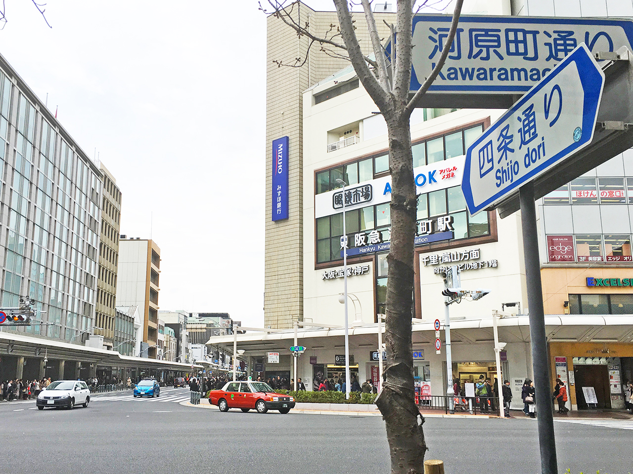 Shijo Dori's sign